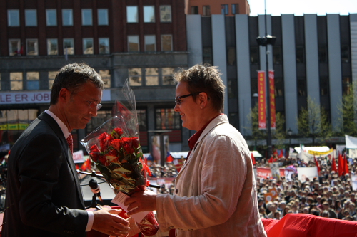 The Norwegian Prime Ministers Jens Stoltenberg receiving flowers after his 1.may speech at youngstorget, oslo